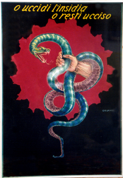 Poster by Orlando Orlandi.